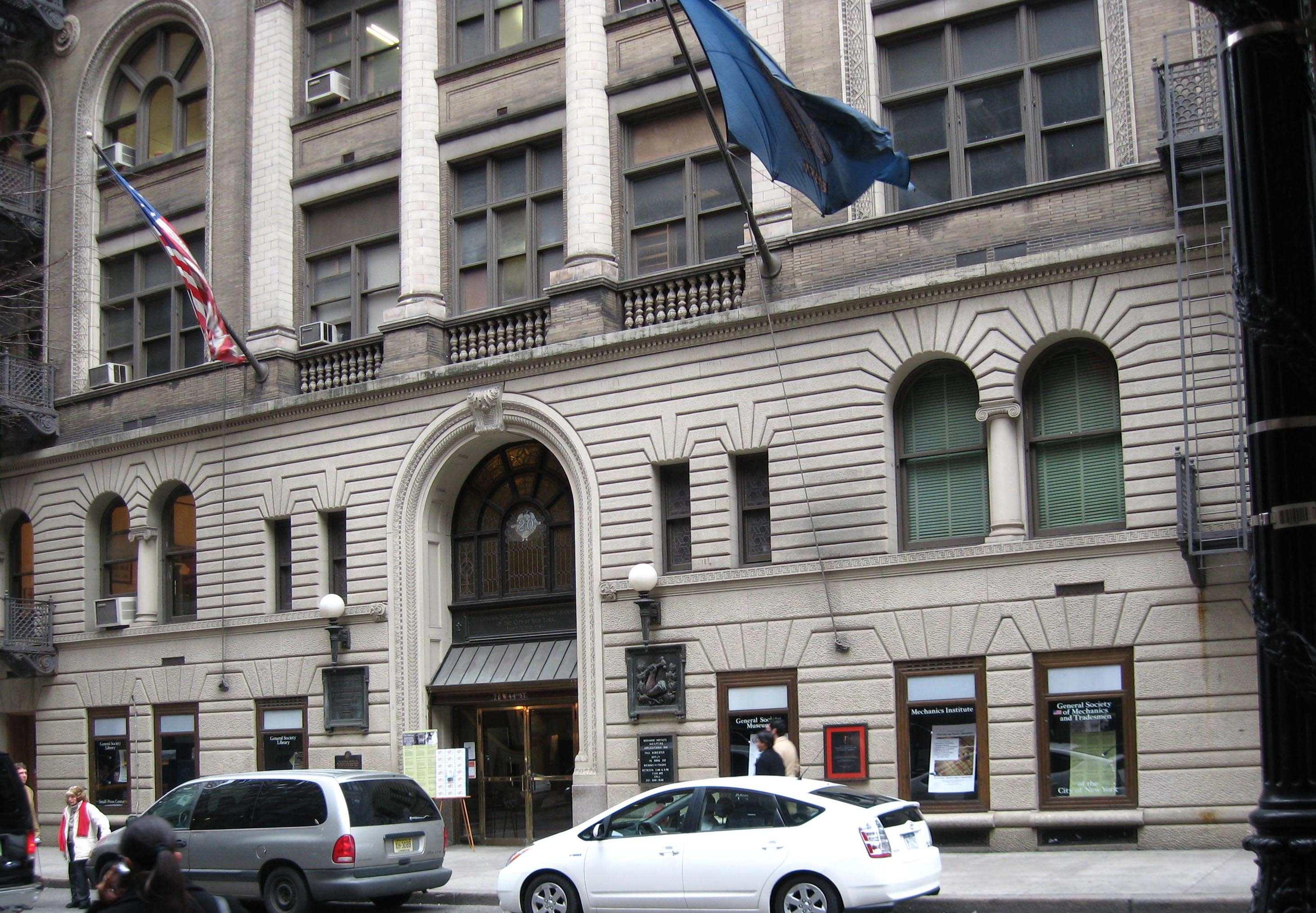 Looking southeast at General Society of Mechanics and Tradesmen of the City of New York on West 44th.